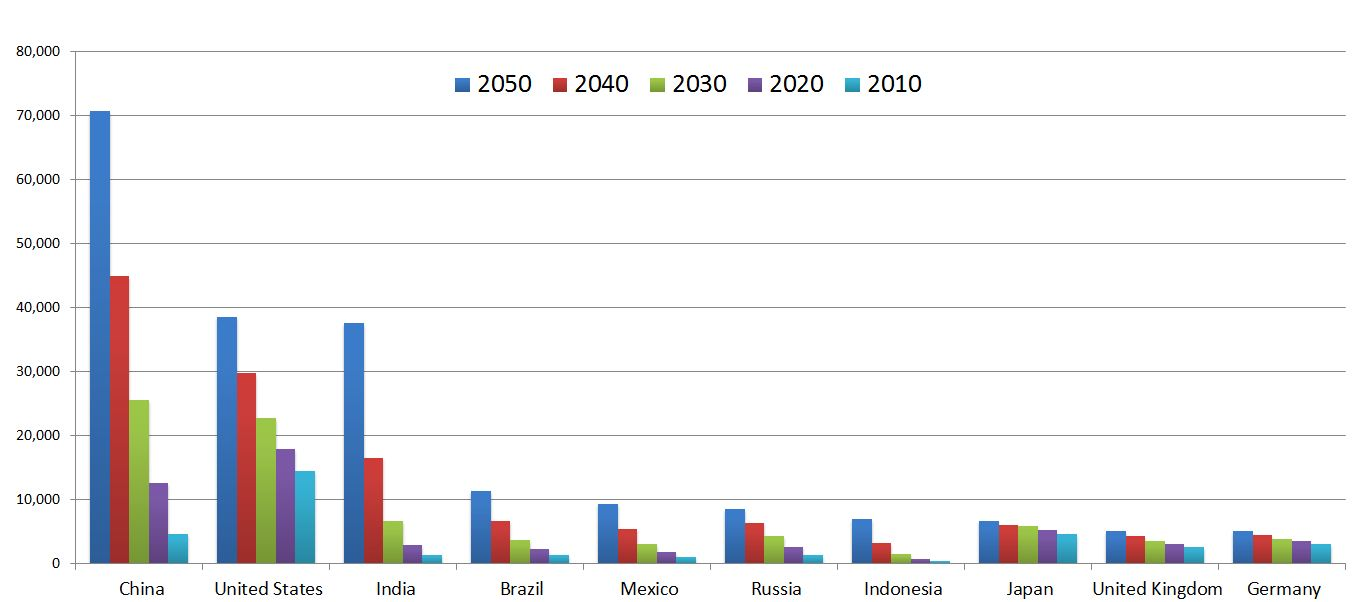 graph of the growth of the top five largest economies of the world from 2010 to 2050